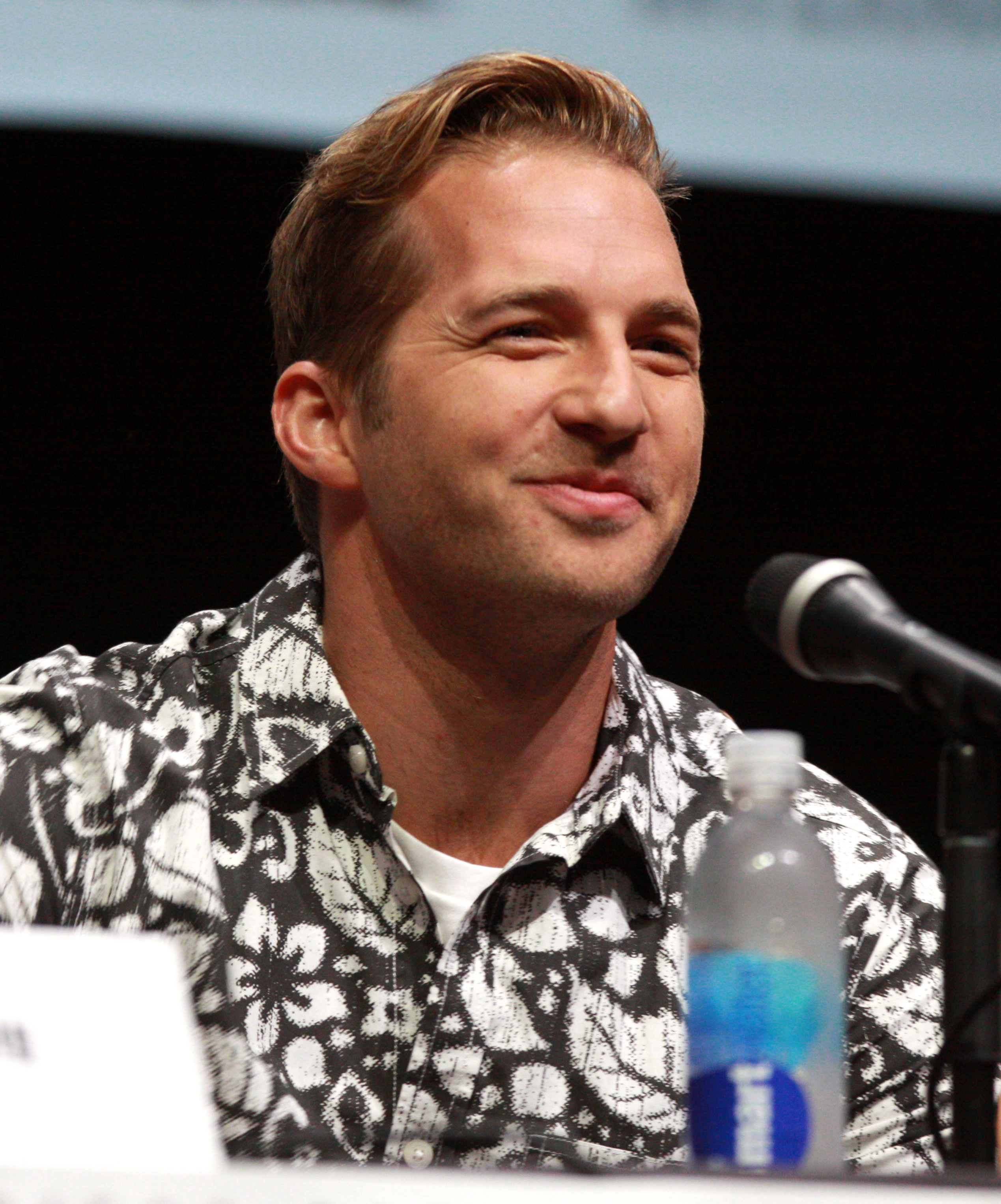 Ryan Hansen at the 2013 San Diego Comic Con International in San Diego, California.